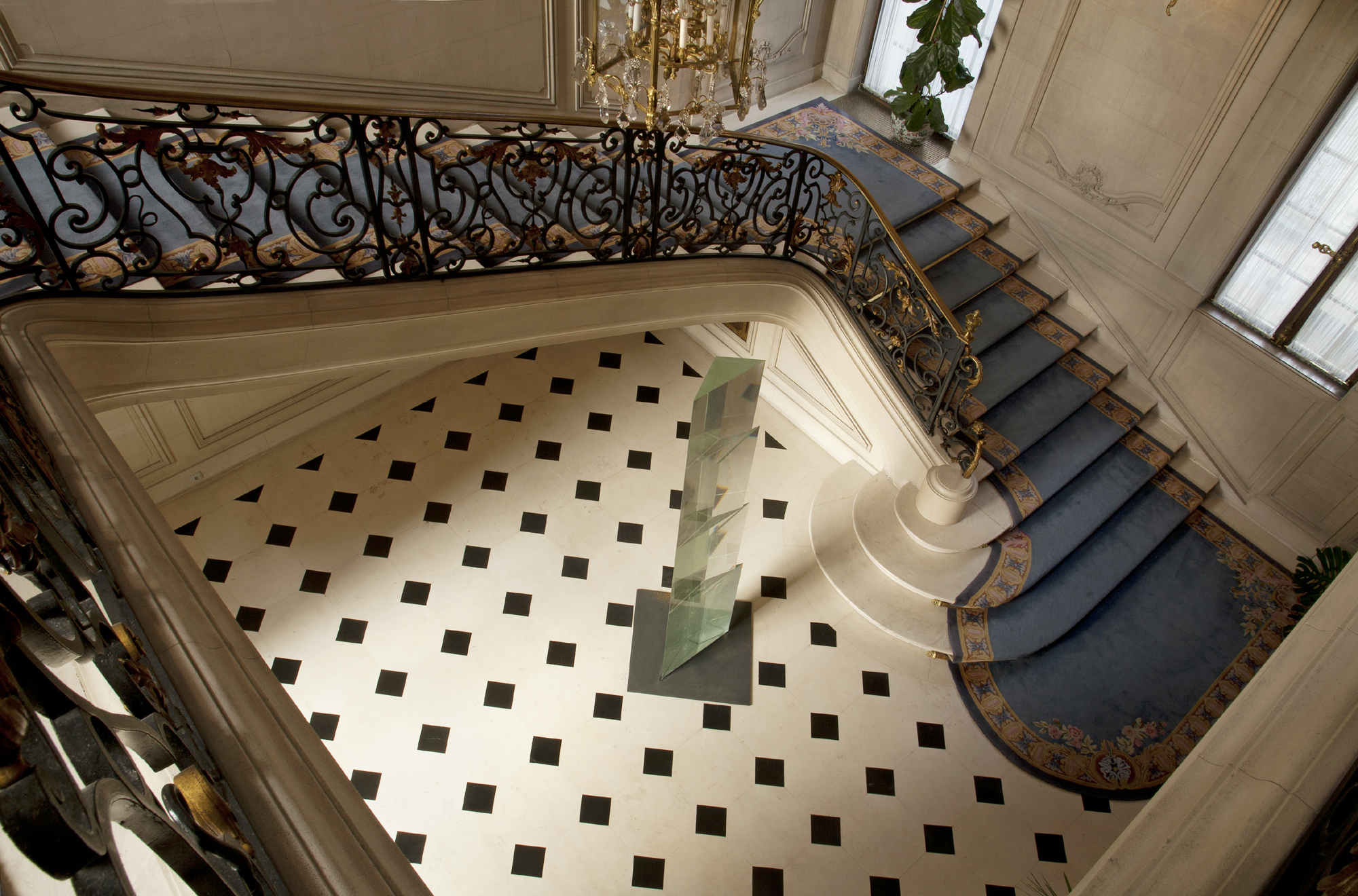 The staircase from the corridor and the second floor corridor are bound together with one huge blue carpet (45 meters long) made in France.